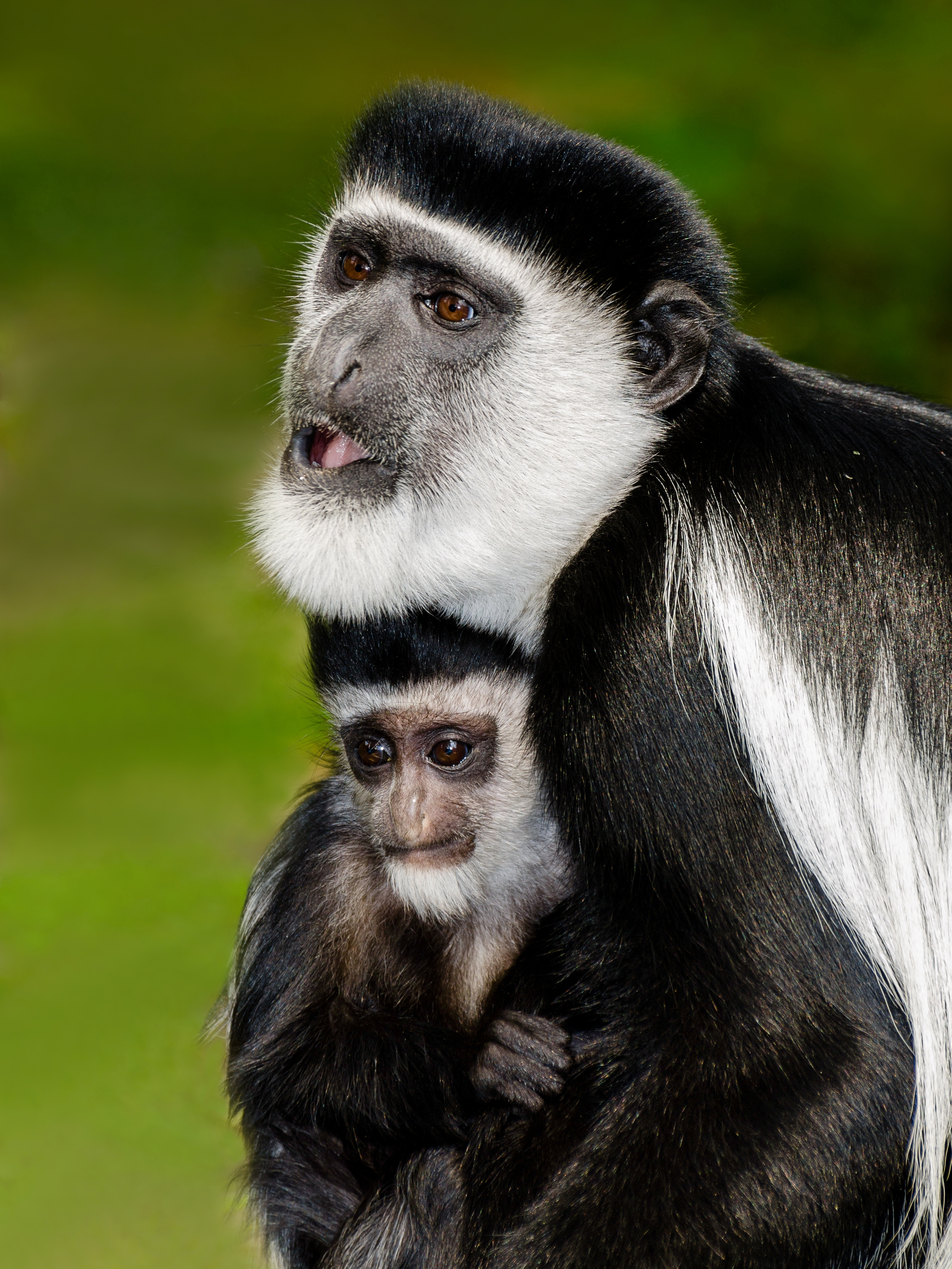 Black-and-white colobus with baby photographed at Münster Zoo